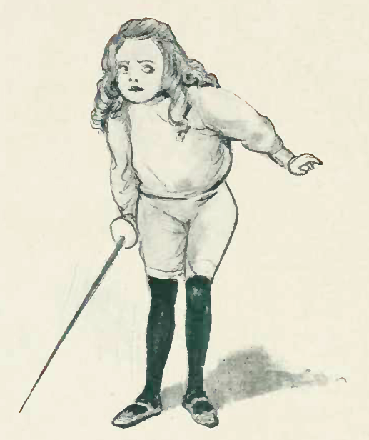 Michael Darling